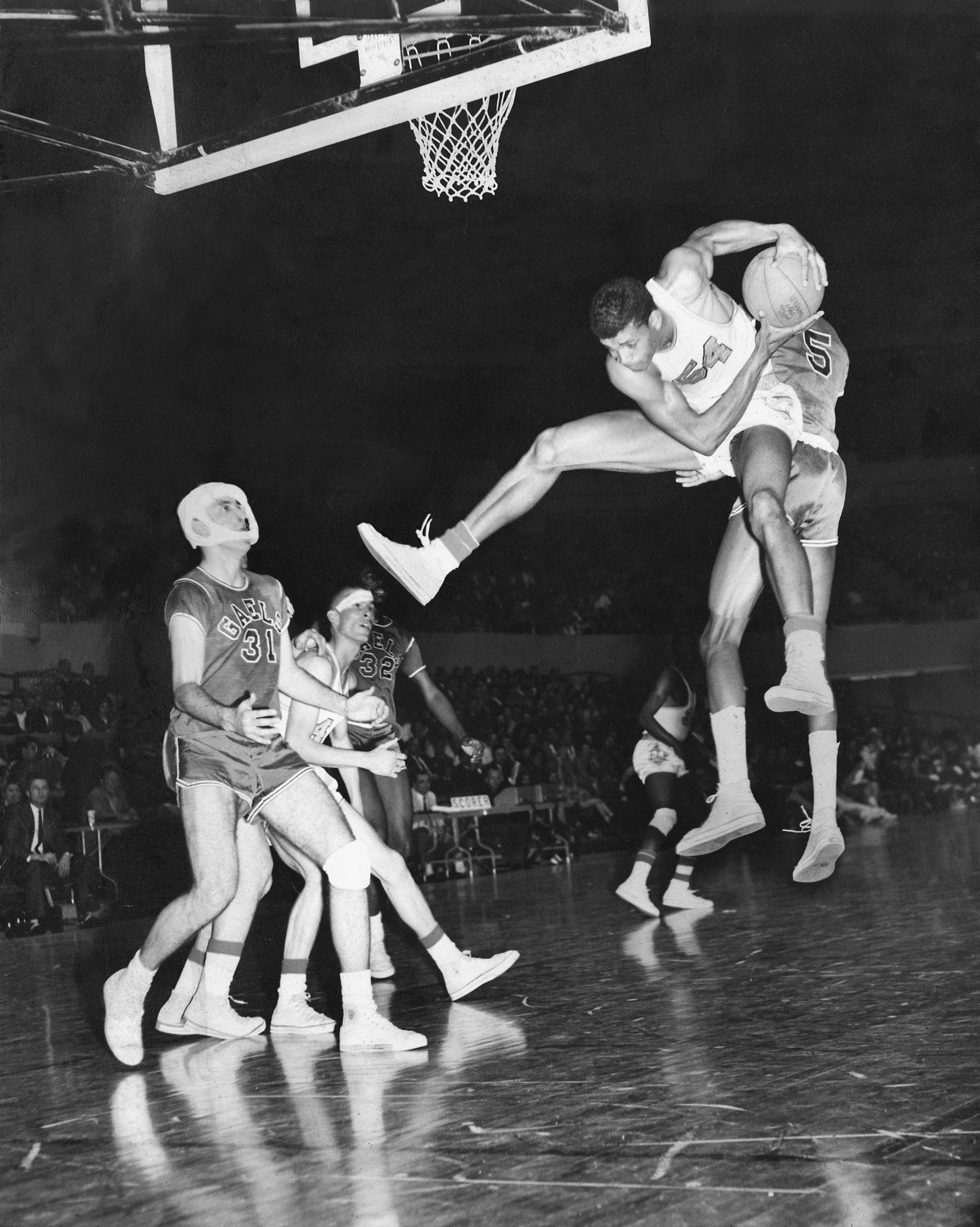 Sterling Forbes (Pepperdine College) makes sure no one else can get his rebound. Dave Hancock(bandaged head) is a teammate, as is Bobby Blue, running back.